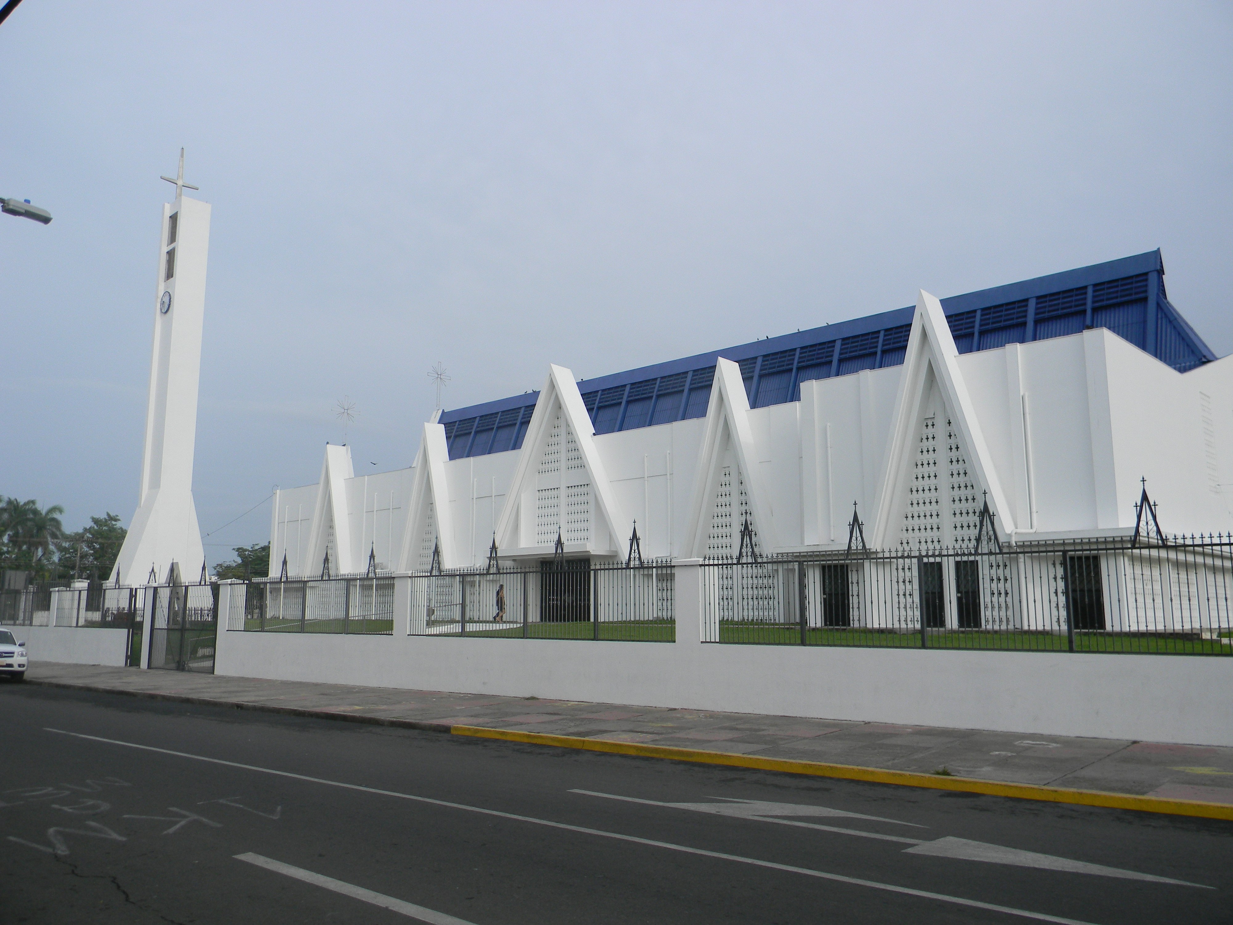 Liberia City - Cathedral